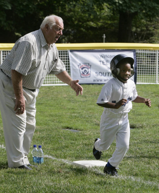 Hall of Fame baseball manager Tommy Lasorda urges on a player from the Wrigley Little League Dodgers of Los Angeles, as he runs for home against the Inner City Little League of Brooklyn, N.Y., Sunday, July 15, 2007, during the White House Tee Ball Game celebrating the legacy of Jackie Robinson on the South Lawn of the White House. Brooklyn and Los Angeles represent the two home cities of Robinson’s team. More about Tee Ball on the South Lawn.